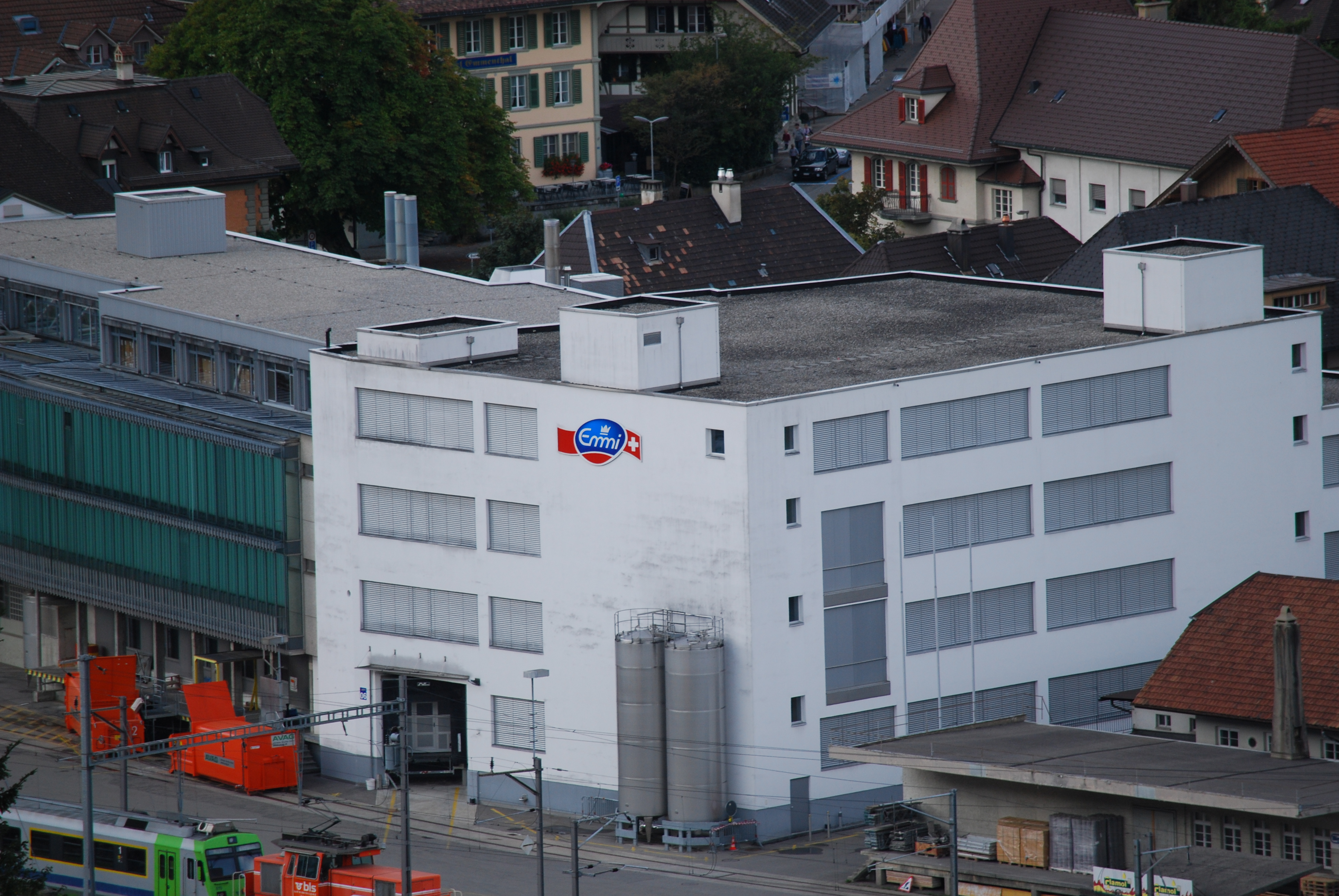 Langnau in the Emme Valley, canton of Bern, SwitzerlandEsperanto: Langnau en Emme-Valo, Kantono Berno, Svislando